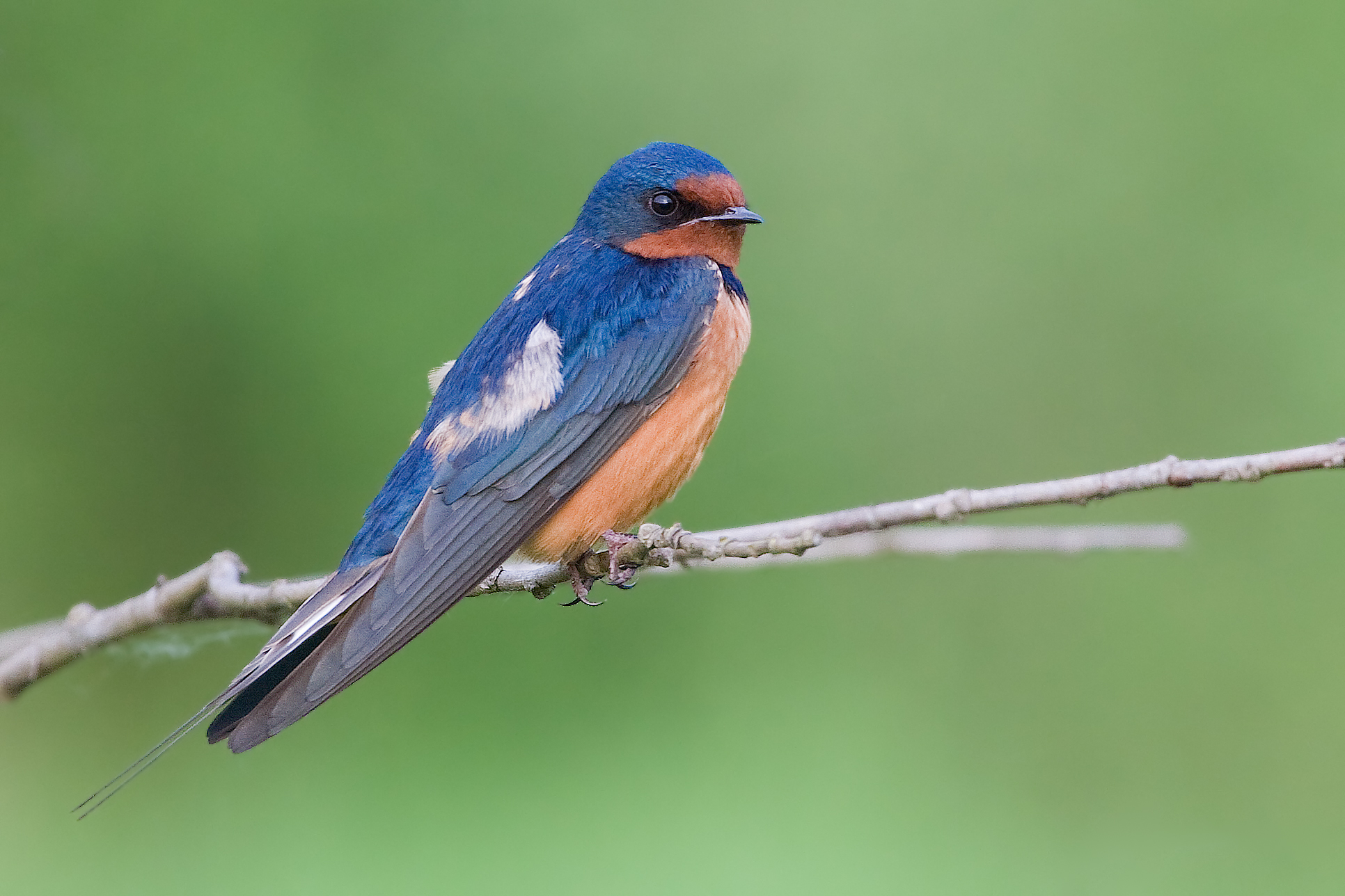 Barn Swallow (H. r. erythrogaster) in Juanita, Washington, USA.